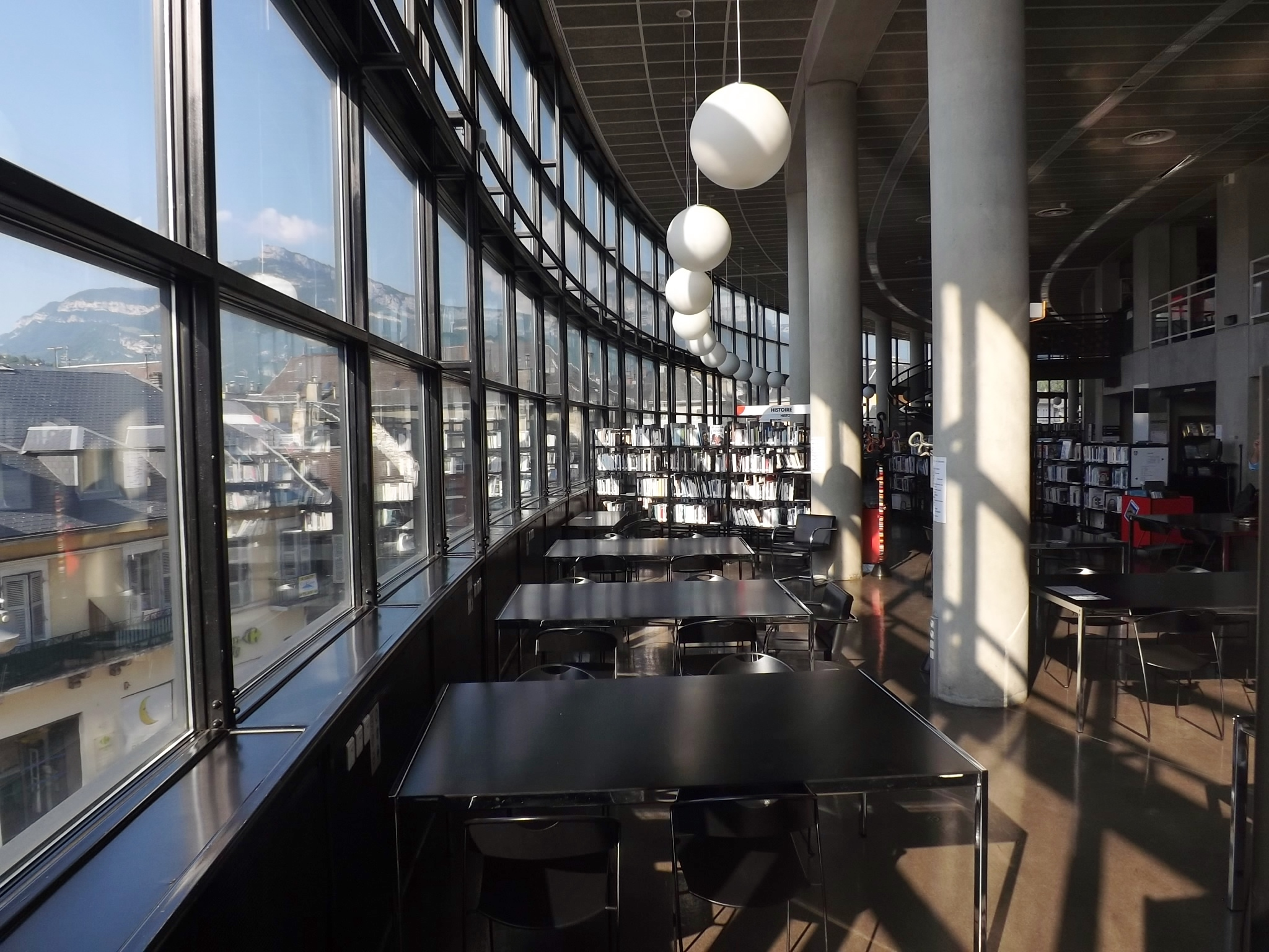 Inside sight of the city of Chambéry 'Jean-Jacques Rousseau' municipal library 2nd floor, in Savoie, France.